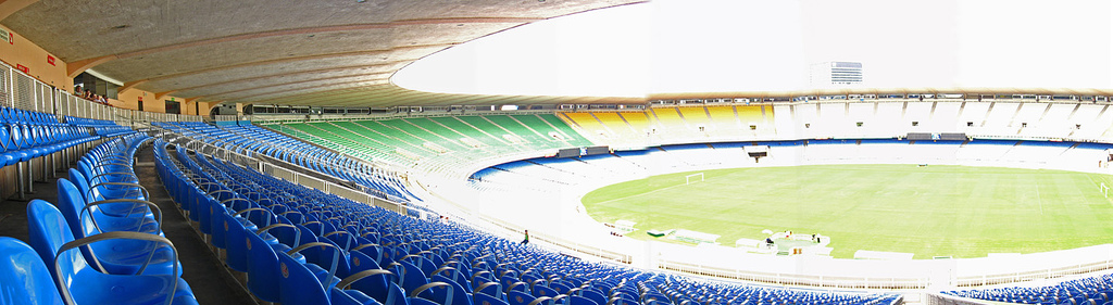 Maracanã Stadium, Rio de Janeiro, Brazil.